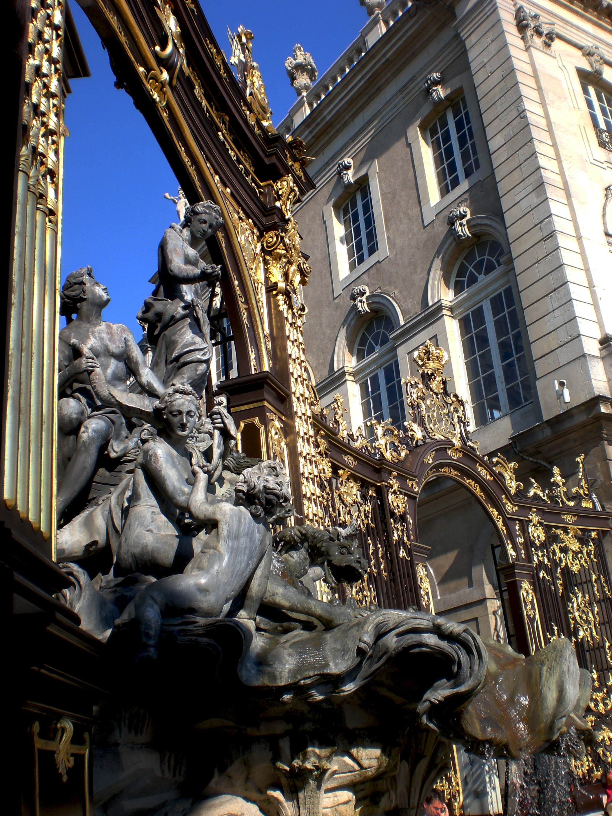 Nancy, Fountain of Amphitrite